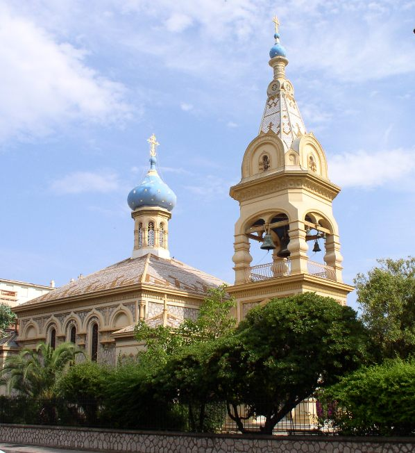 Russian Orthodox Church Saint-Michel-Archange in Cannes, France.